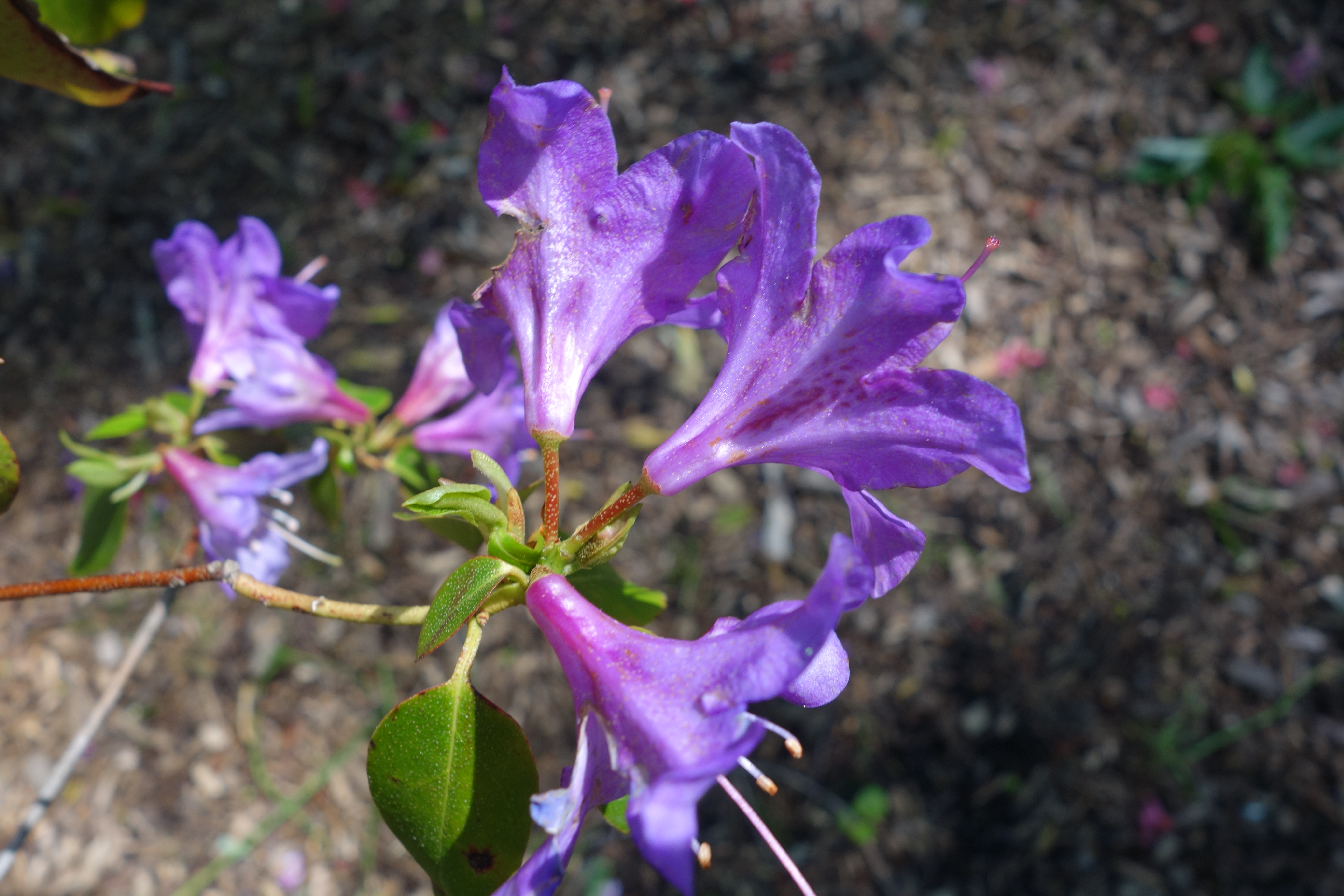 Botanical specimen in Arnold Arboretum, Jamaica Plain, Boston, Massachusetts, USA.